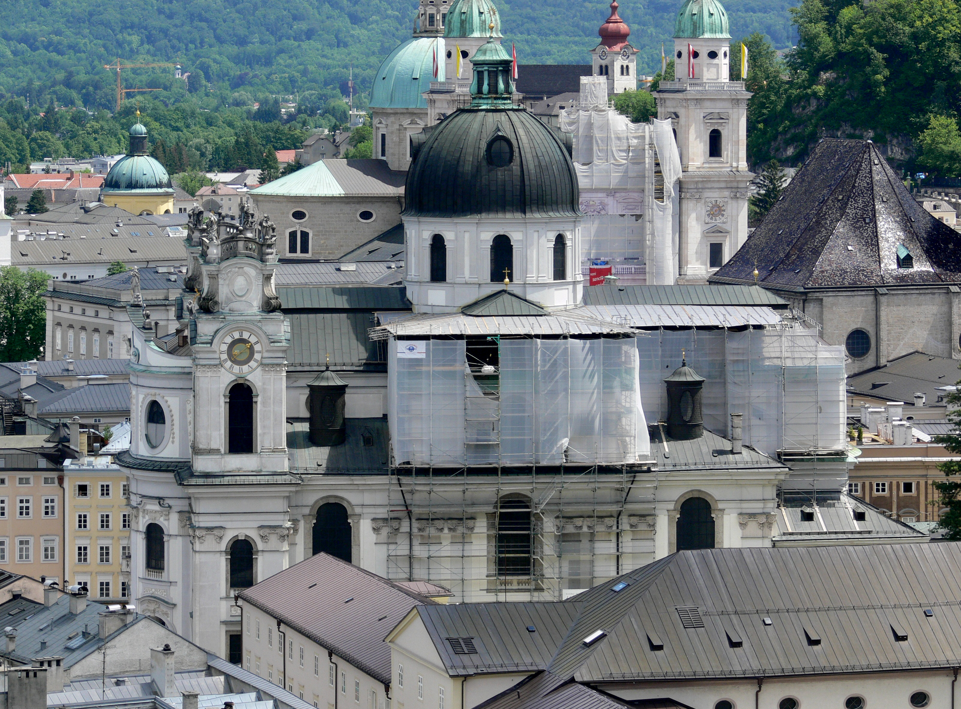 Austria, Salzburg, Kollegienkirche